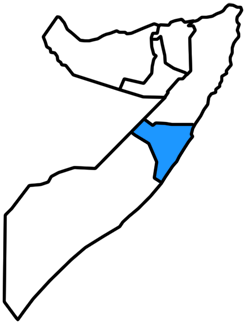 Location of Galmudug State of Somalia